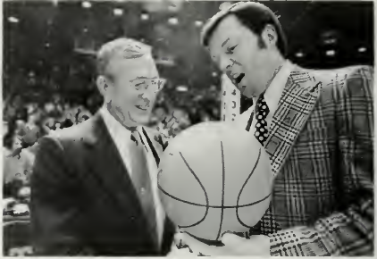 John Wooden of the UCLA Bruins presented with game ball from Digger Phelps of the Notre Dame Fighting Irish after UCLA won 82–63 for it's 61st straight win, breaking the previous NCAA record.